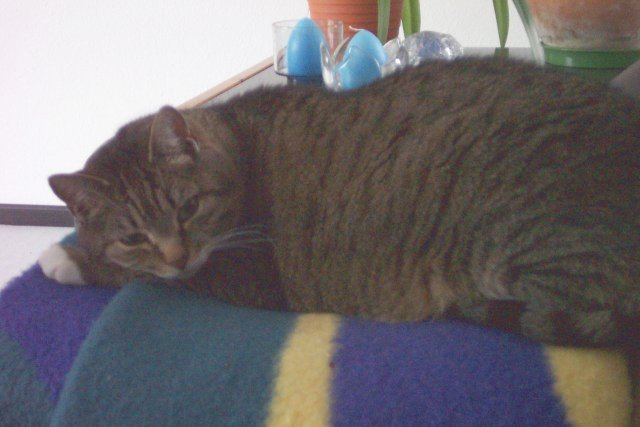 european shorthair cat, called Quattro.